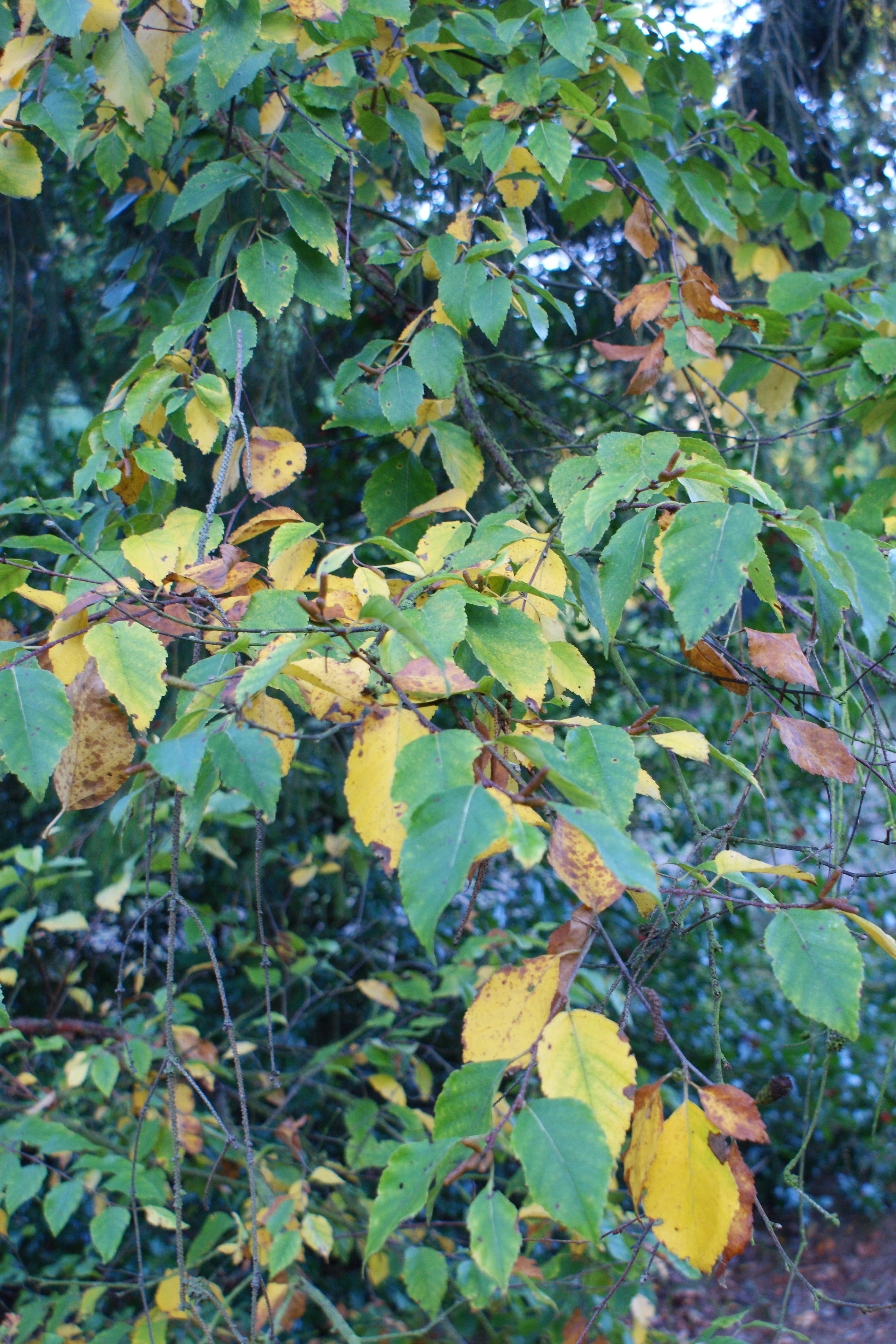 Betula davurica in Arboretum in Glinna (NW Poland)